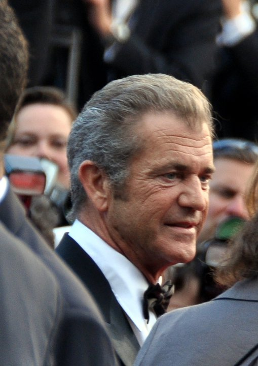 Mel Gibson at the Cannes film festival